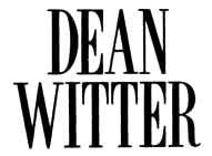 This is a historical logo (1993) and is no longer in use by its owner